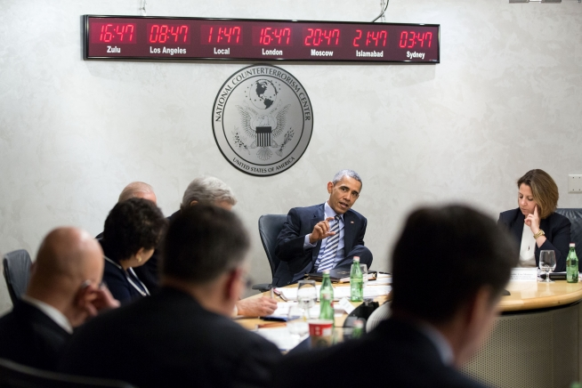 President Barack Obama participates in a counterterrorism threat briefing at the National Counterterrorism Center in McLean, Va., Dec. 17, 2015.